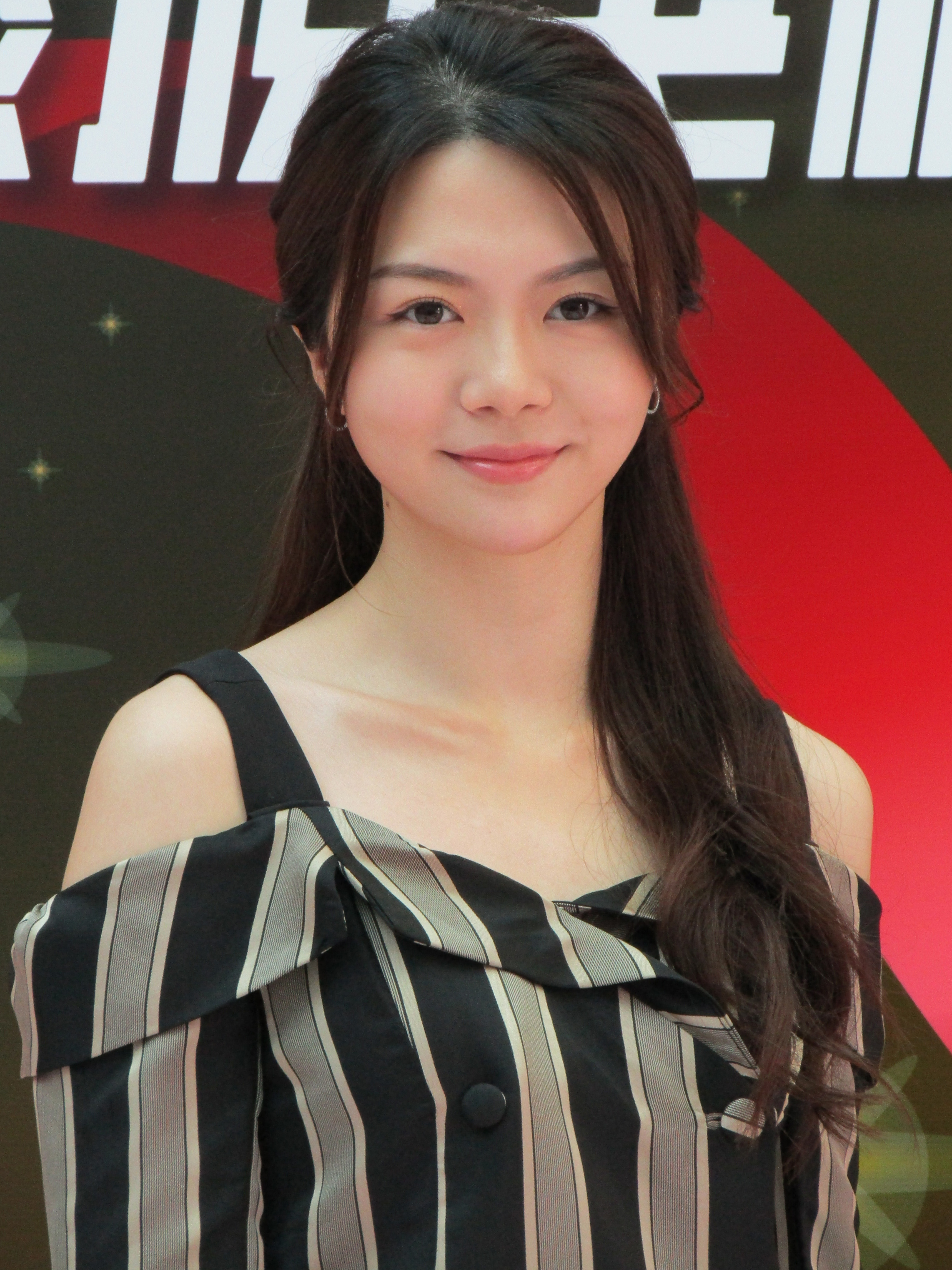 Tsang Lok Tung is in MCP CENTRAL